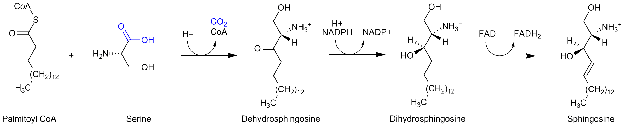 self-made in Chemdraw. correction of the previous figure, Sphingosine_synthesis.png which had incorrect stereochemistry. dihydrosphingosine is first N-acylated to dihydroceramide before dehydrogenation to ceramide